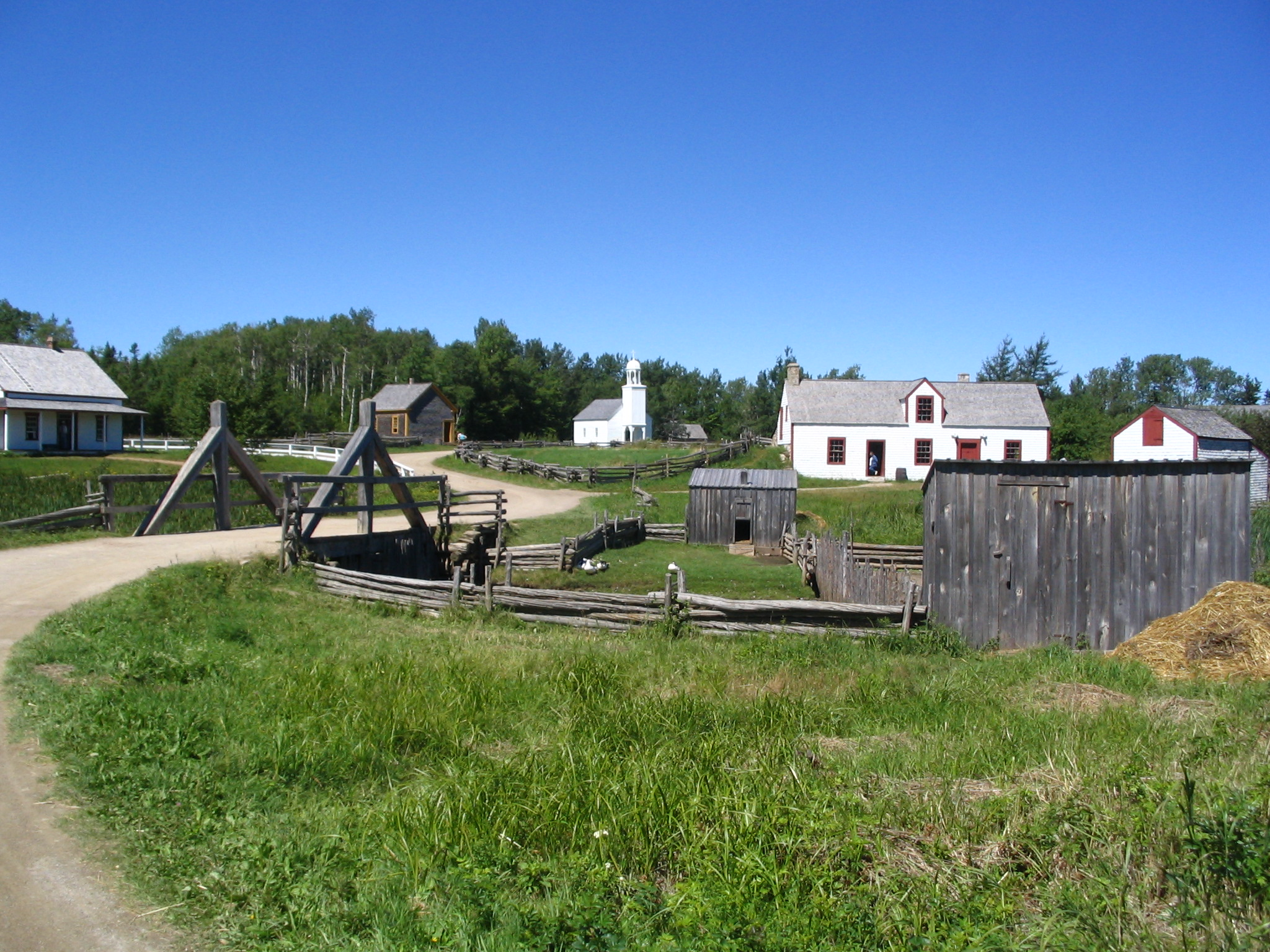 A view of the Acadian historic village.